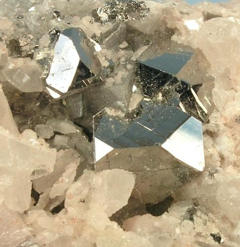 Carrollite, Calcite Locality: Kamoya South II Mine (Kamoya Sud Mine; Kamoya South Mine), Kamoya, Kambove, Central area, Katanga Copper Crescent, Katanga (Shaba), Democratic Republic of Congo (Zaïre) (Locality at ) Size: 8 x 4.5 x 3.2 cm. A beautiful and highly lustrous group of Carrollite crystals that fits well into the mold of "classic" for the species and locality. These mirror-like crystals, with their incredibly complex habit, measure up to 1.2 cm across, and are nestled in Calcite. Ex. Charlie Key.